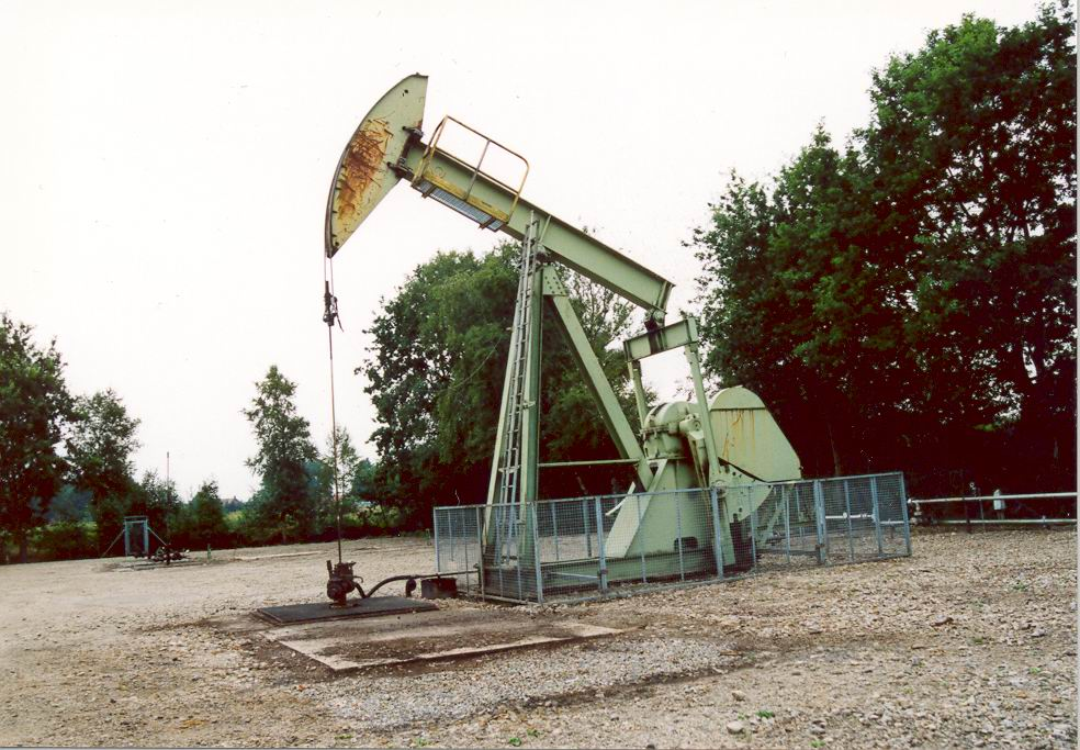 Pumpjack for crude oil near Twiste, Niedersachsen, Germany